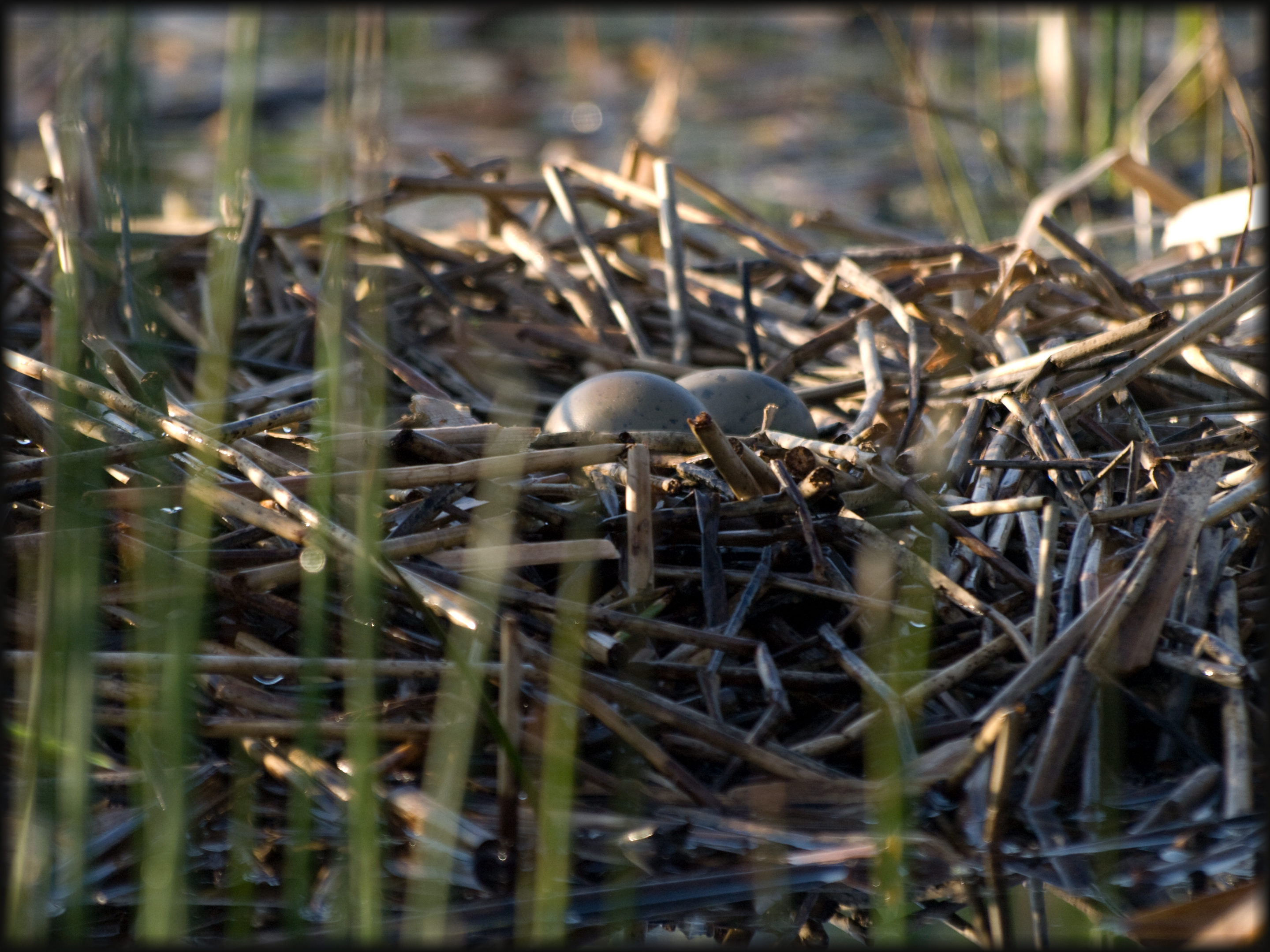 picture of common loon nest with clutch of two eggs